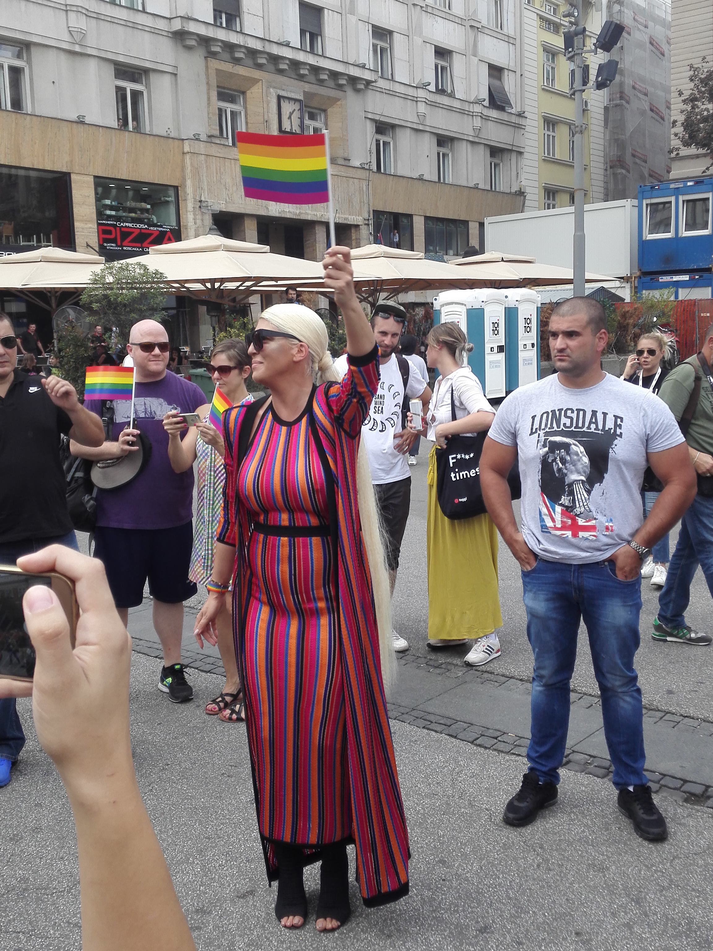 Belgrade Pride Parade 2017, September 17, 2017. Jelena Karleuša waves the rainbow flag Srpski (latinica): Parada Ponosa Beograd, 17. septembar 2017. Jelena Karleuša sa duginom zastavom